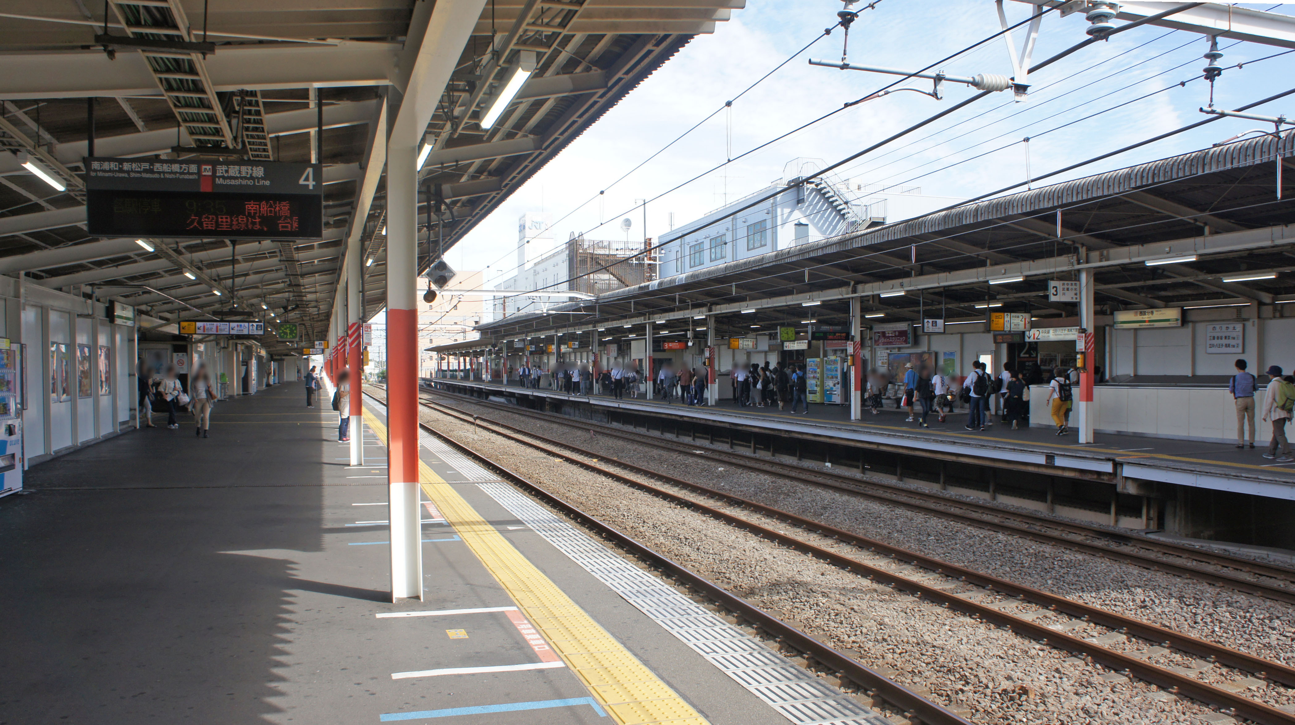 Platform 3・4 (Musashino-Line) of JR Chuo-Main-Line/Musashino-Line Nishi-Kokubunji Station